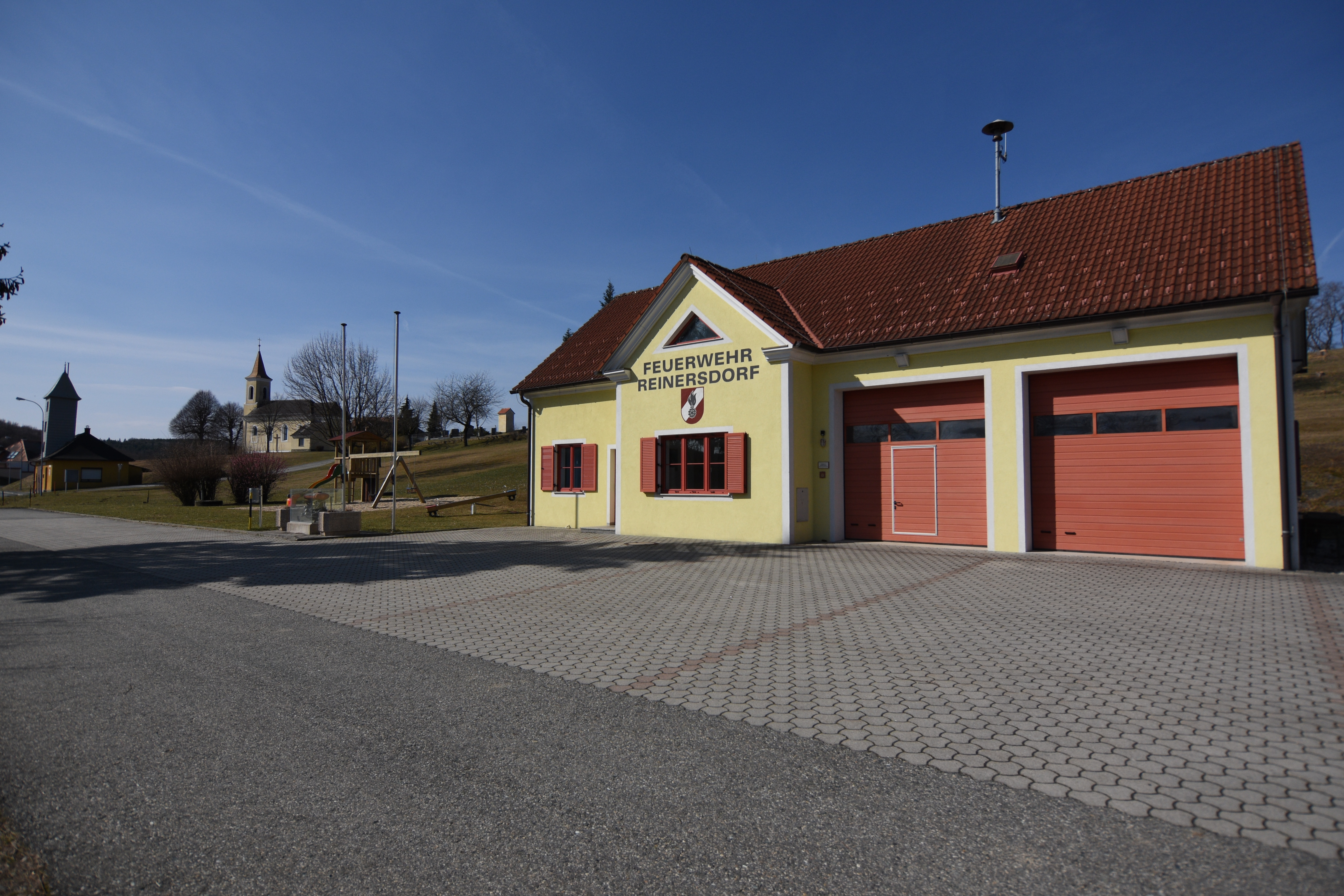 Fire station in Reinersdorf (Heiligenbrunn)